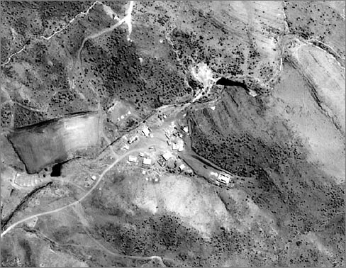 1998 satellite image released by the U.S. Government of an Al-Qaeda training camp at Zhawar Kili, Afghanistan that was later bombed during Operation Infinite Reach. This release, was the first official release of previously classified satellite imagery by the U.S. government.